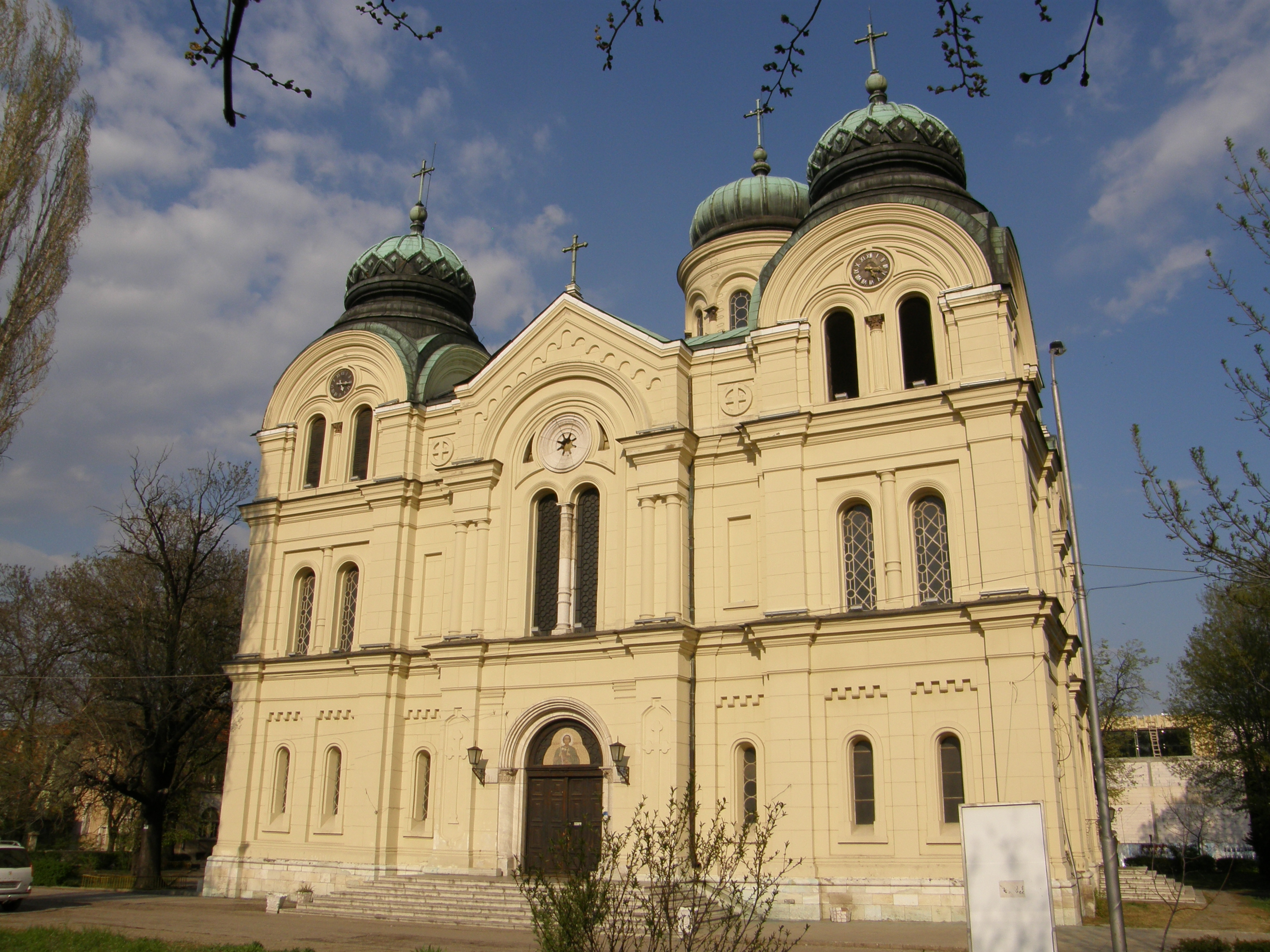 St Demetrius Cathedral at the Bulgarian city of Vidin. St Demetrius Cathedral, Vidin...